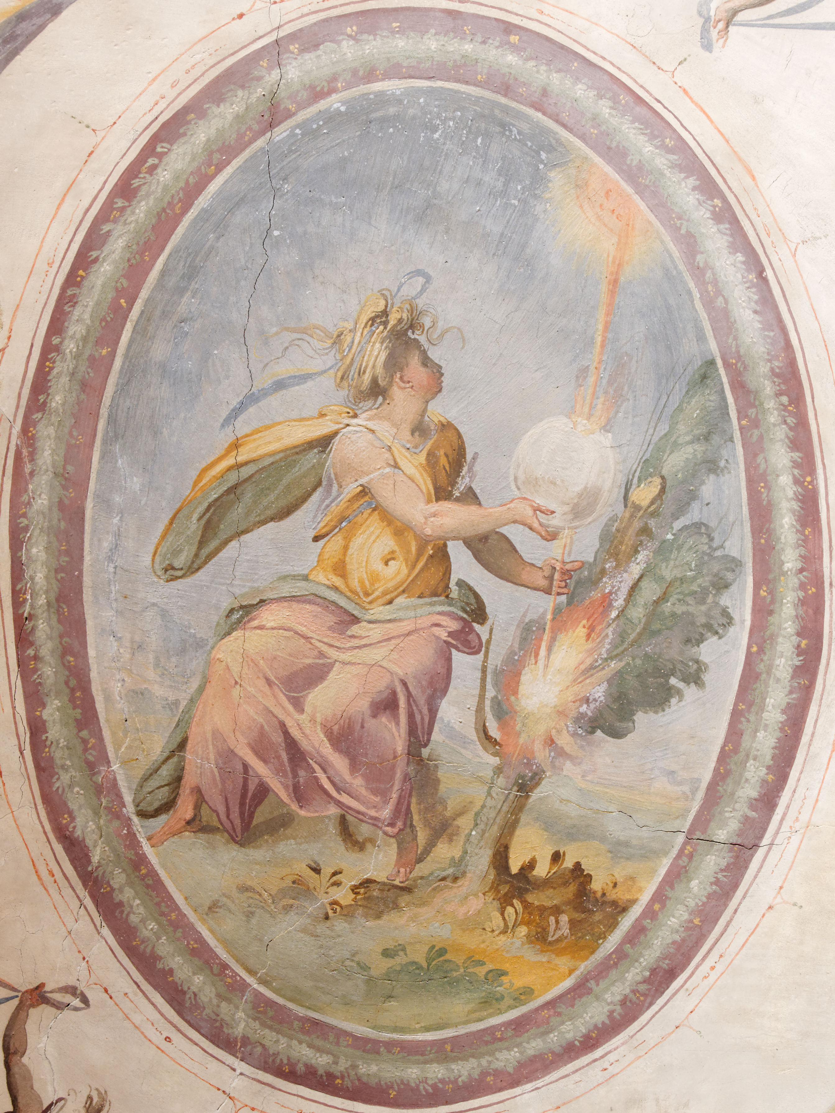 Allegory of fire, corridor leading to the terrace of Saturn.